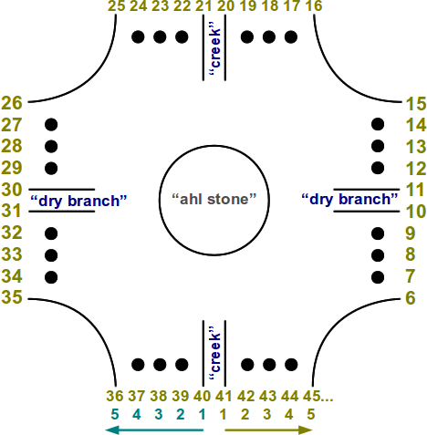 Schematic of Zohn Ahl board, a race game played by the Kiowa Indians of North America. After Culin: Chess and Playing Cards.